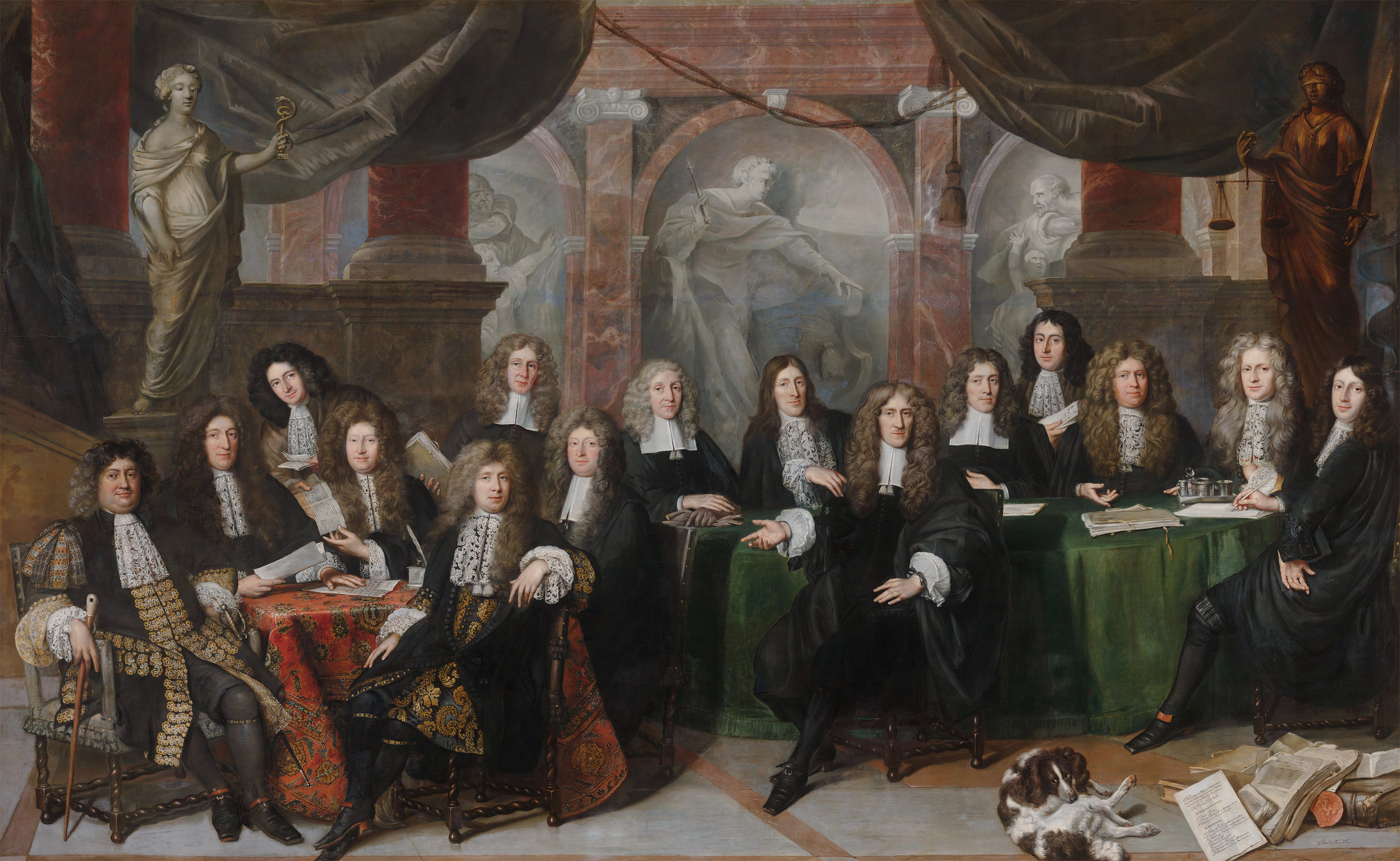 The magistrate of The Hague in the year 1682 oil on canvas 325 x 520 cm depiction in the background: Judgment of Solomon inscribed b.r.: names of the magistrates signed b.r.: Jan de Baen Fecit